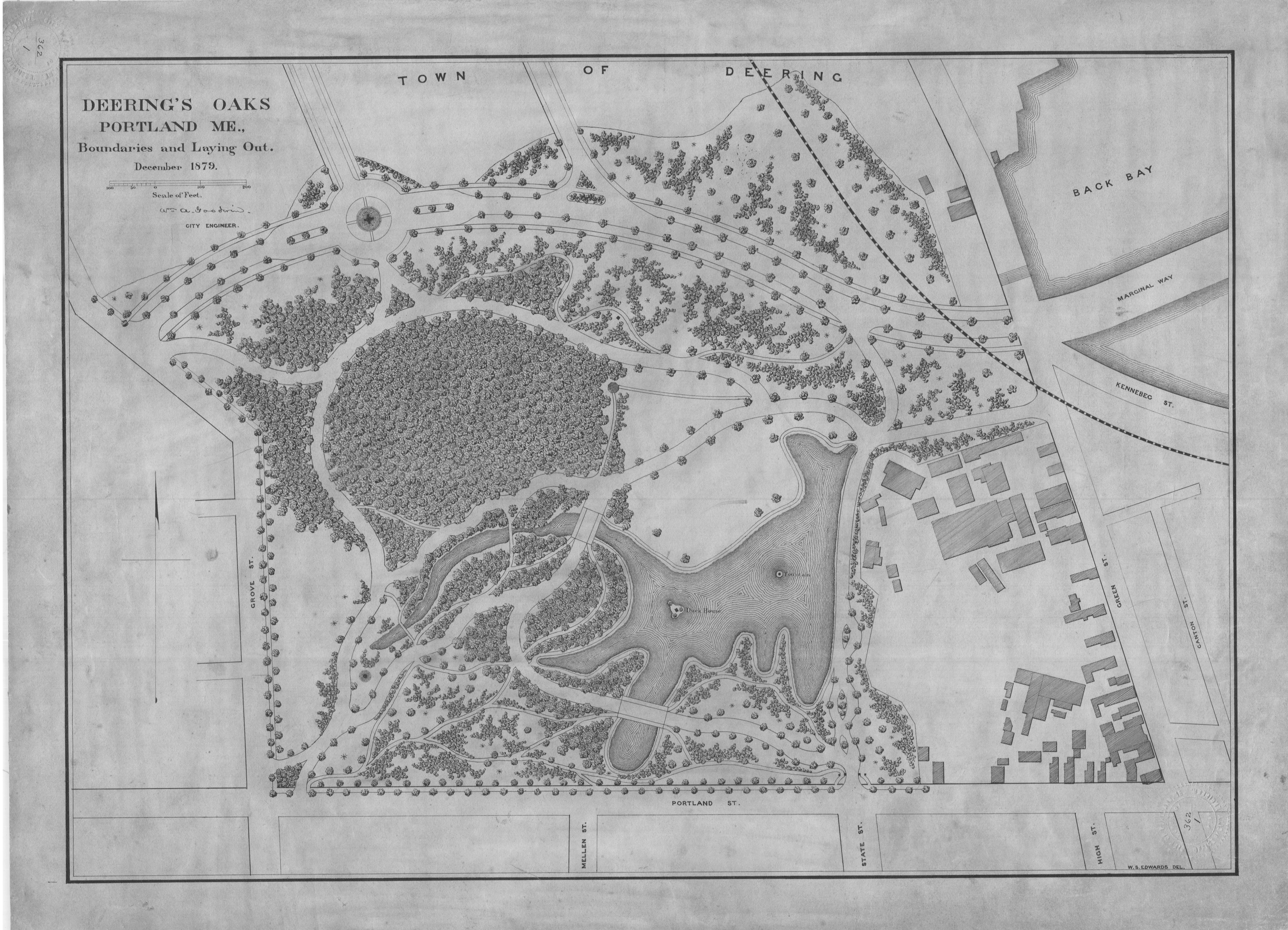 Original map (December 1879) of Deering Oaks Park in Portland, Maine.